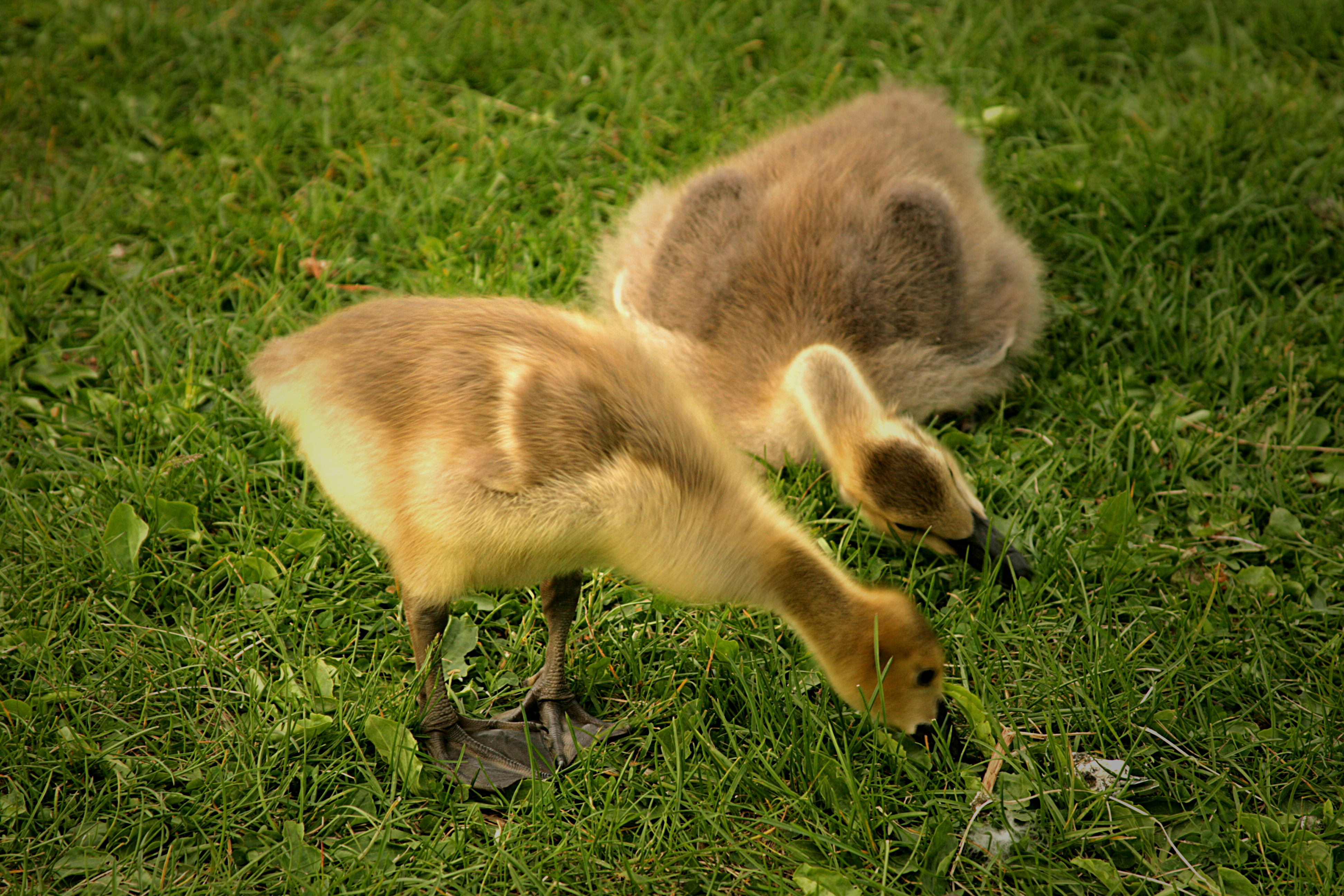 Canada Goose goslings in Hawrelak Park, Edmonton, Alberta, Canada.